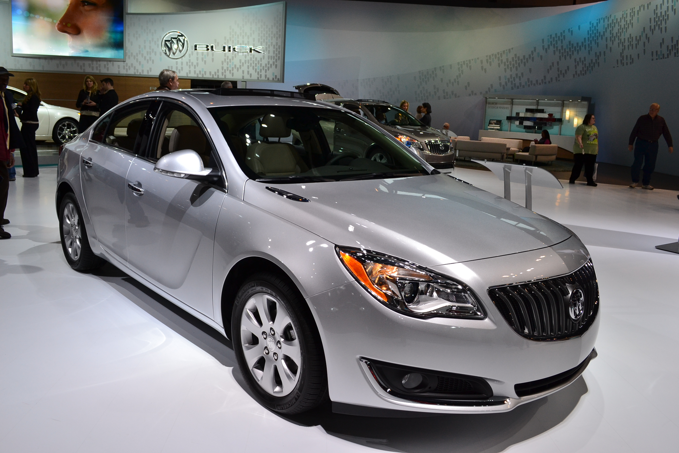 2014 Buick Regal eAssist. Photographed at Chicago Auto Show